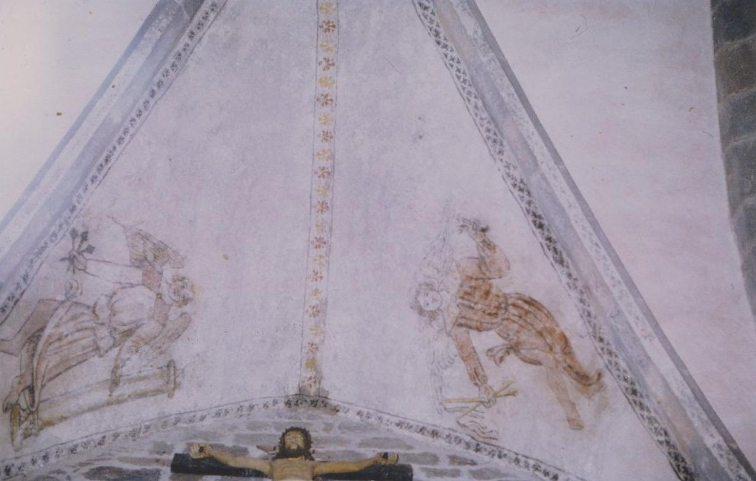 Cezens church